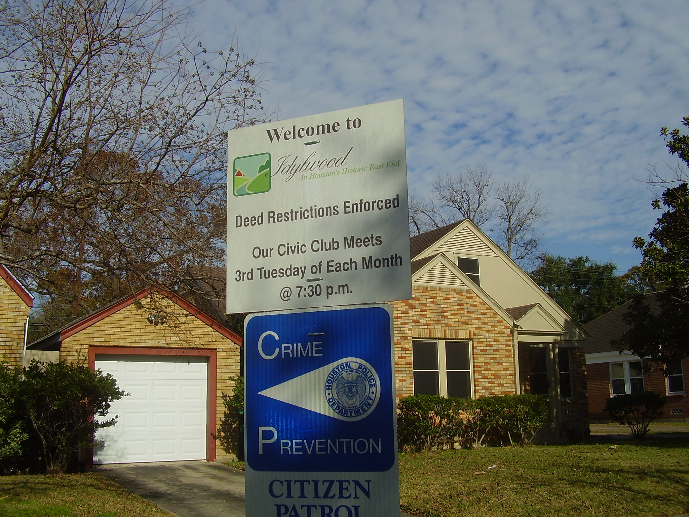 Idylwood sign